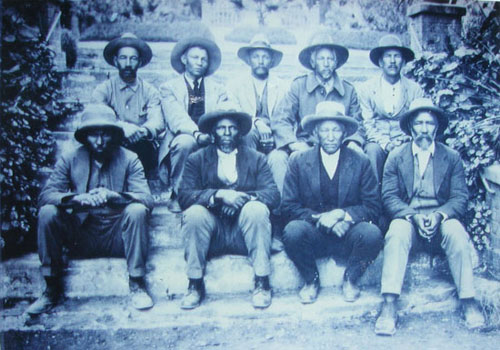 the Rehoboth baster council that signed the treaty with South Africa in 1923